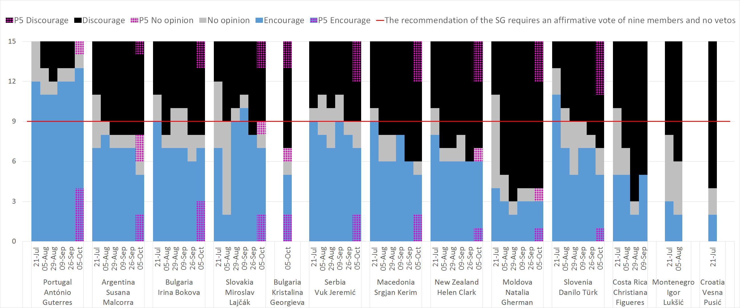 Results of all 6 straw polls to select the UN SG to take office in 2017. Candidates ordered by: #1 lowest number of discourages from P5 countries; #2 highest encourage votes from P5 countries; #3 lowest total discourage votes; #4 highest total encourage votes